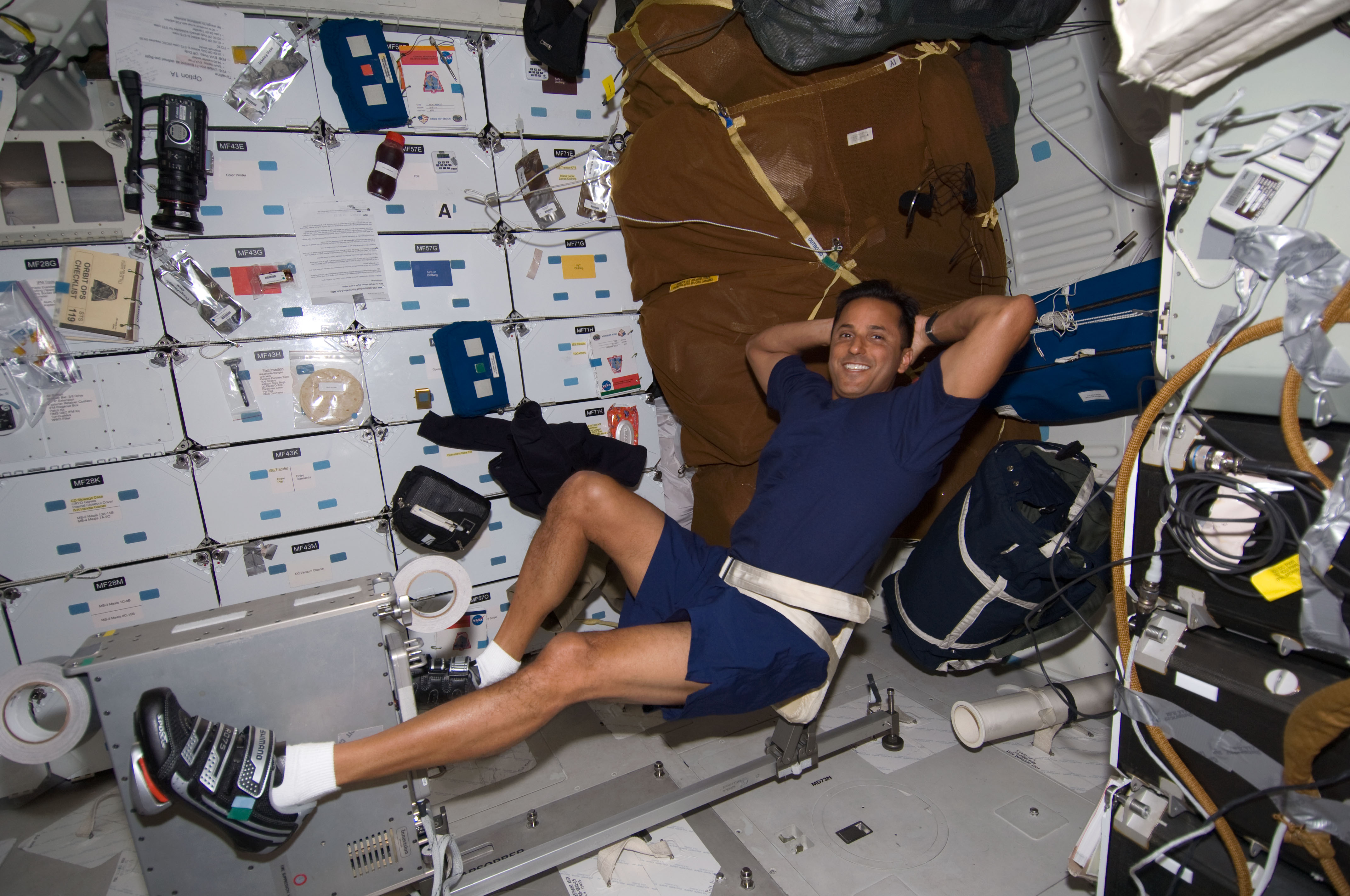 Performing his own in-space version of "look, Ma, no hands" is astronaut Joseph Acaba, STS-119 mission specialist. The shuttle version of the bike, deployed here on Discovery's mid deck, is called the ergometer and is one device that provides astronauts a chance to exercise while in space.